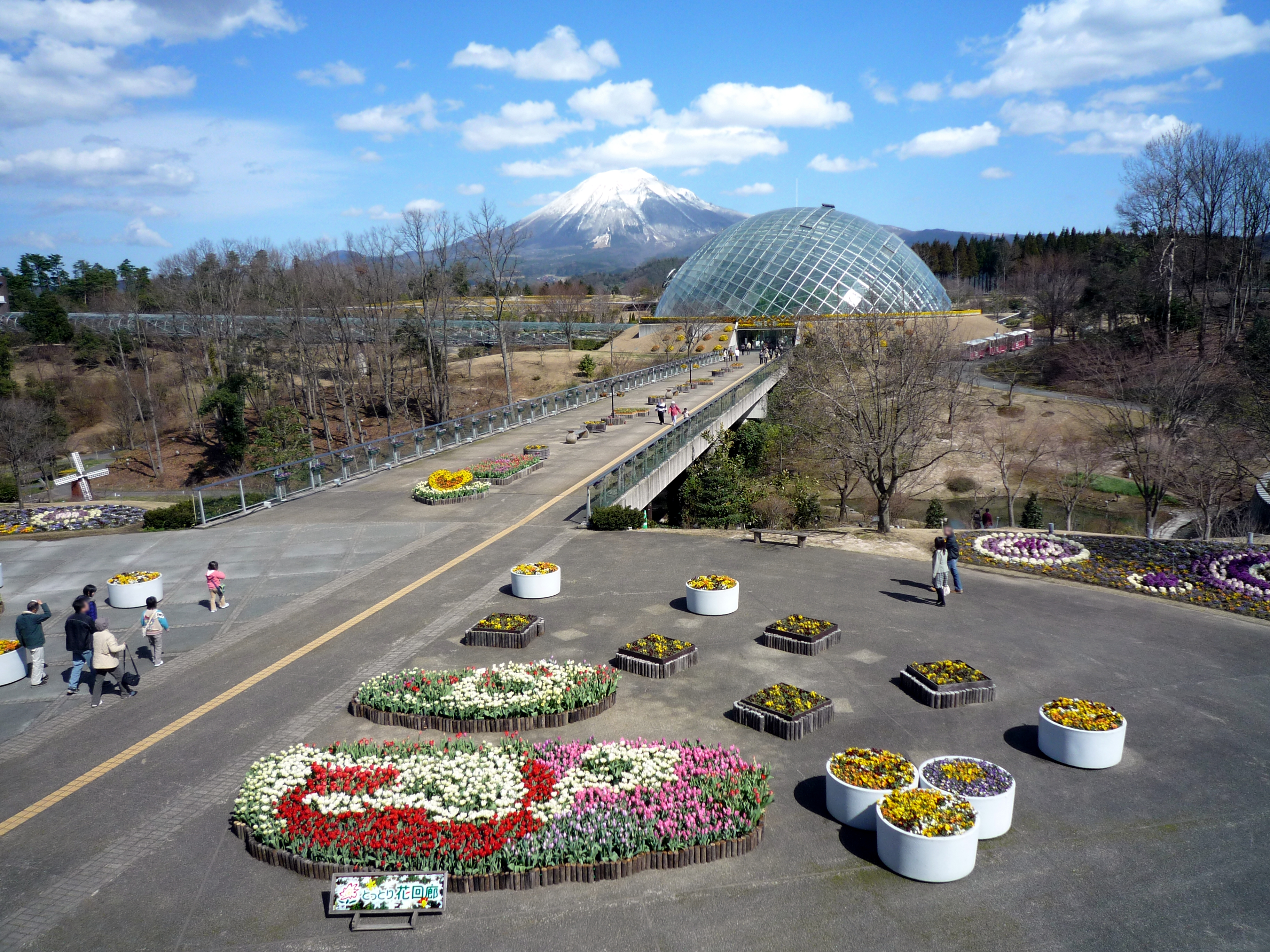 Tottori Hanakairo-Flower Park, Nanbu, Tottori